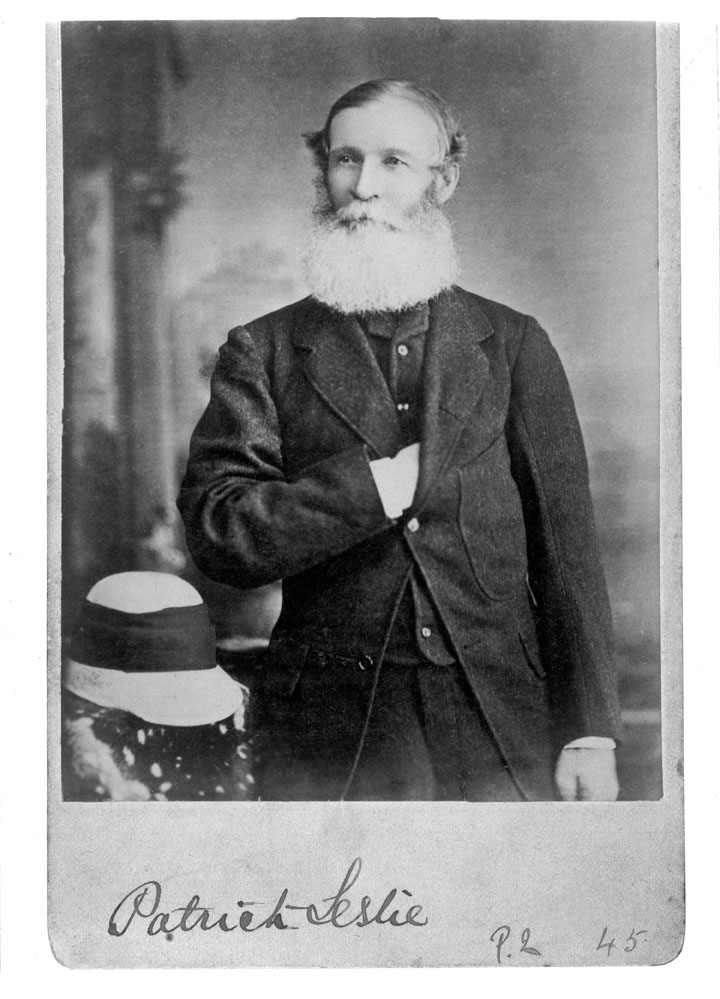 Portrait of Patrick Leslie. (Leslie, Patrick (1815-1881), pioneer and grazier. Represented Moreton, Wide Bay, Burnett and Maranoa in the first New South Wales Legislative Assembly in 1857.)